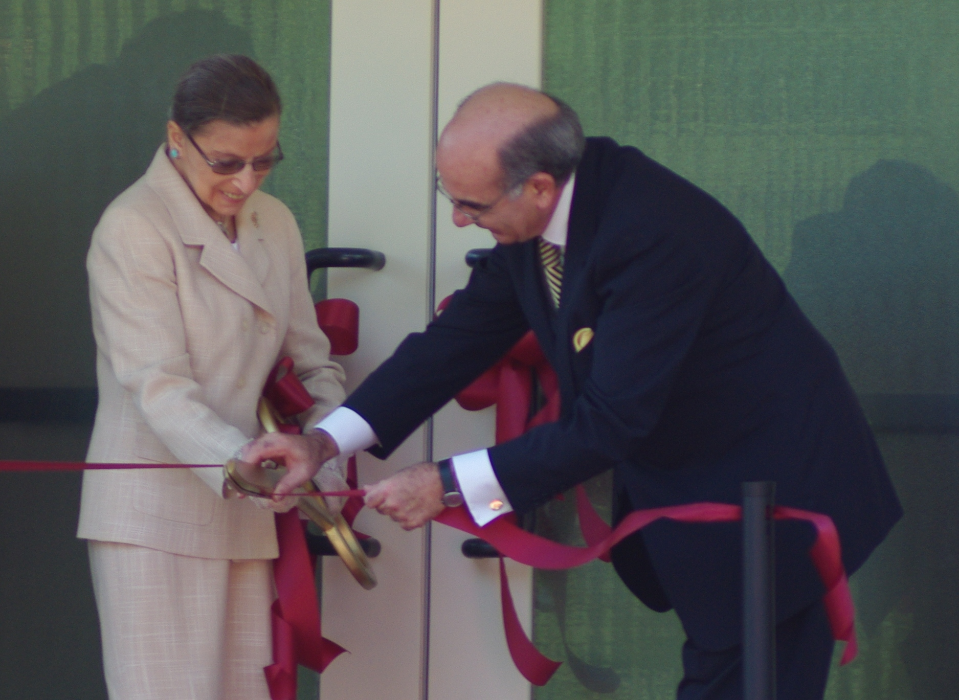 Ribbon cutting at the Oregon Civic Justice Center with Dean Symneonides and justice Ginsburg.